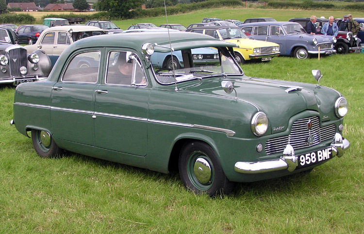 Ford Zephyr Six at a car show at Coalpit Heath, near Bristol, England. I don't know the age of this car but the number plate format "3 numbers and 3 letters" suggests the year of registration would have been somewhere between 1955 and 1964. In the mid-nineteen-fifties the UK number plate system changed from "3 letters and 3 numbers to "3 numbers and three letters", and between 1963 and 1965 (depending on the issuing authority) a suffix year letter was added to make seven digits and letters. Date of First Registration 25 03 1954 (See UK vehicle enquiry service --—)